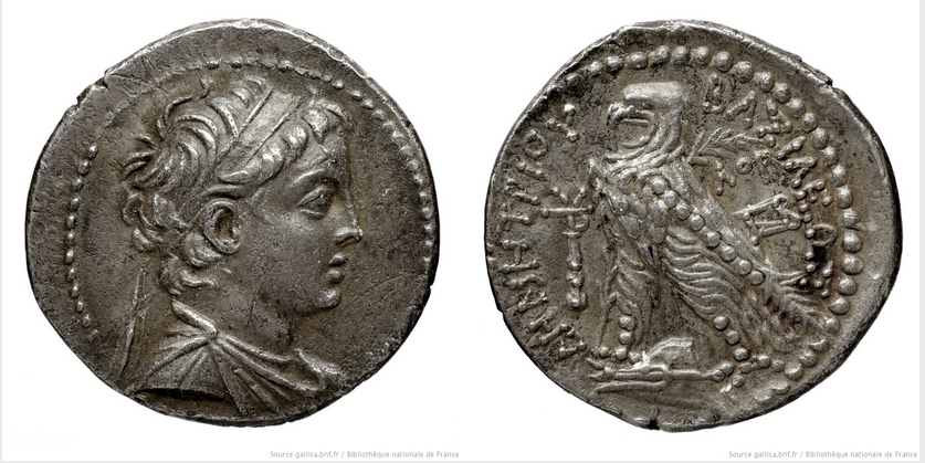 "Buste de Démétrios II Nikator à droite, coiffé d'un diadème et un drapé autour du cou. Revers : ΒΑΣΙΛΕΩΣ ΔHMHTPIOY. Aigle sur une rame de navire de trois quarts face à gauche, une palme sous l'aile droite ; dans le champ gauche, une massue incluse dans le monogramme de Tyr ("TYP" ; marque d'atelier) ; dans le champ droit, AOP (date), au-dessous, un monogramme. "